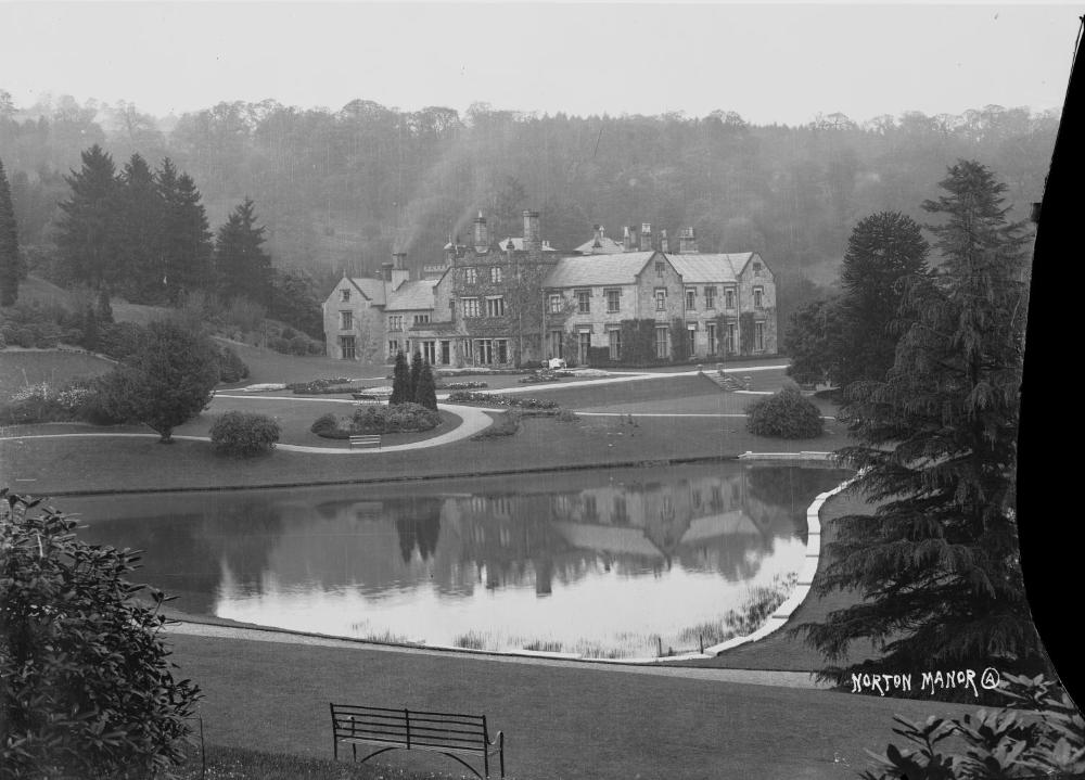 Abstract: Norton Manor